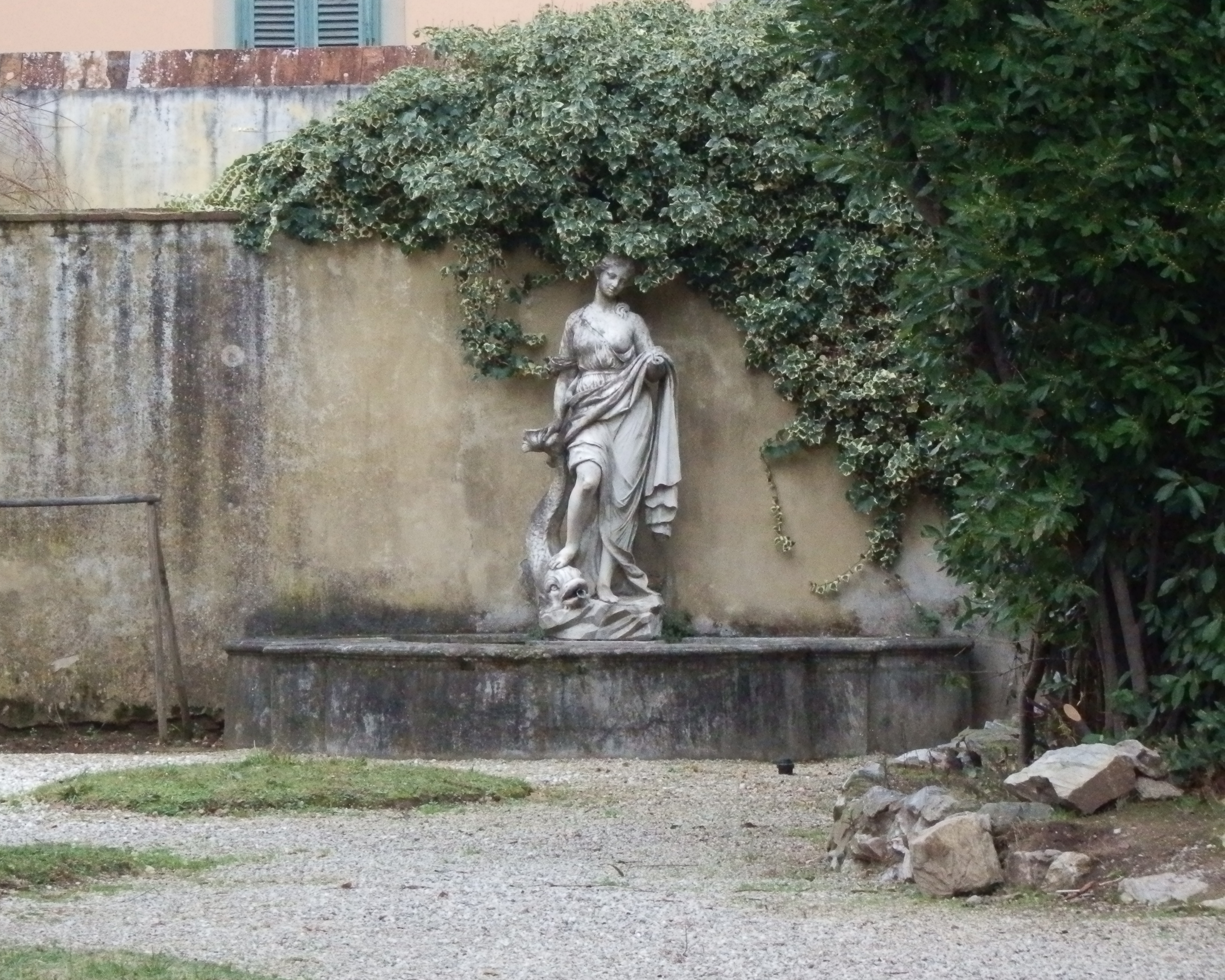 Citrus orchad of Palazzo Ruschi - Vicolo del Ruschi, I-56127, Pisa, Italy. Garden basin.